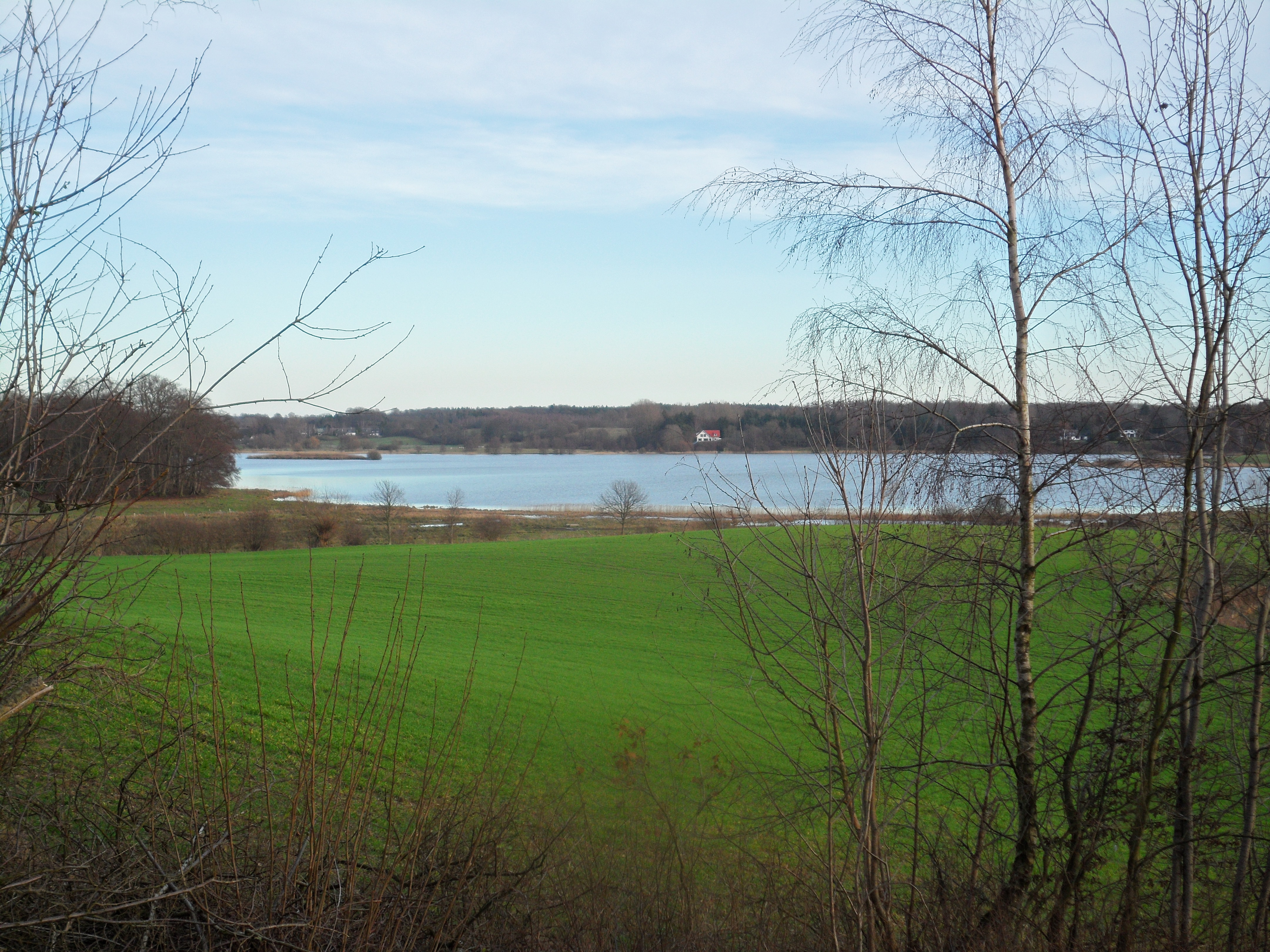 The Sibbersdorfer See from north east